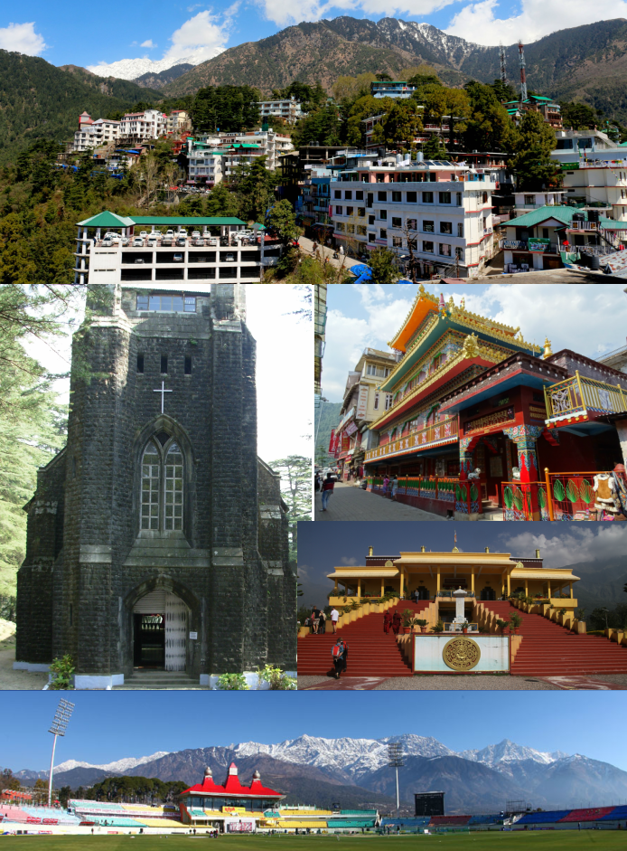 This file is a montage made from existing files available on Commons. The files used areː File:Dharamsala beauty peaks and houses.jpg by Gayatri Priyadarshini File:St. john church,Mcleodganj,himachal pradesh.JPG by Nswn03 File:Main Street Temple - McLeod Ganj - Himachal Pradesh - India (26207379983).jpg by Adam Jones File:Dharamsala-Gyuto-Karmapa-04-gje.jpg by Gerd Eichmann File:Dharamshala stadium,himachal pradesh.jpg by Jms1241